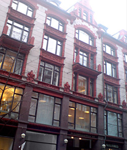 Picture of the offices of Norwegian mediacompany Norsk Ideutvikling AS.